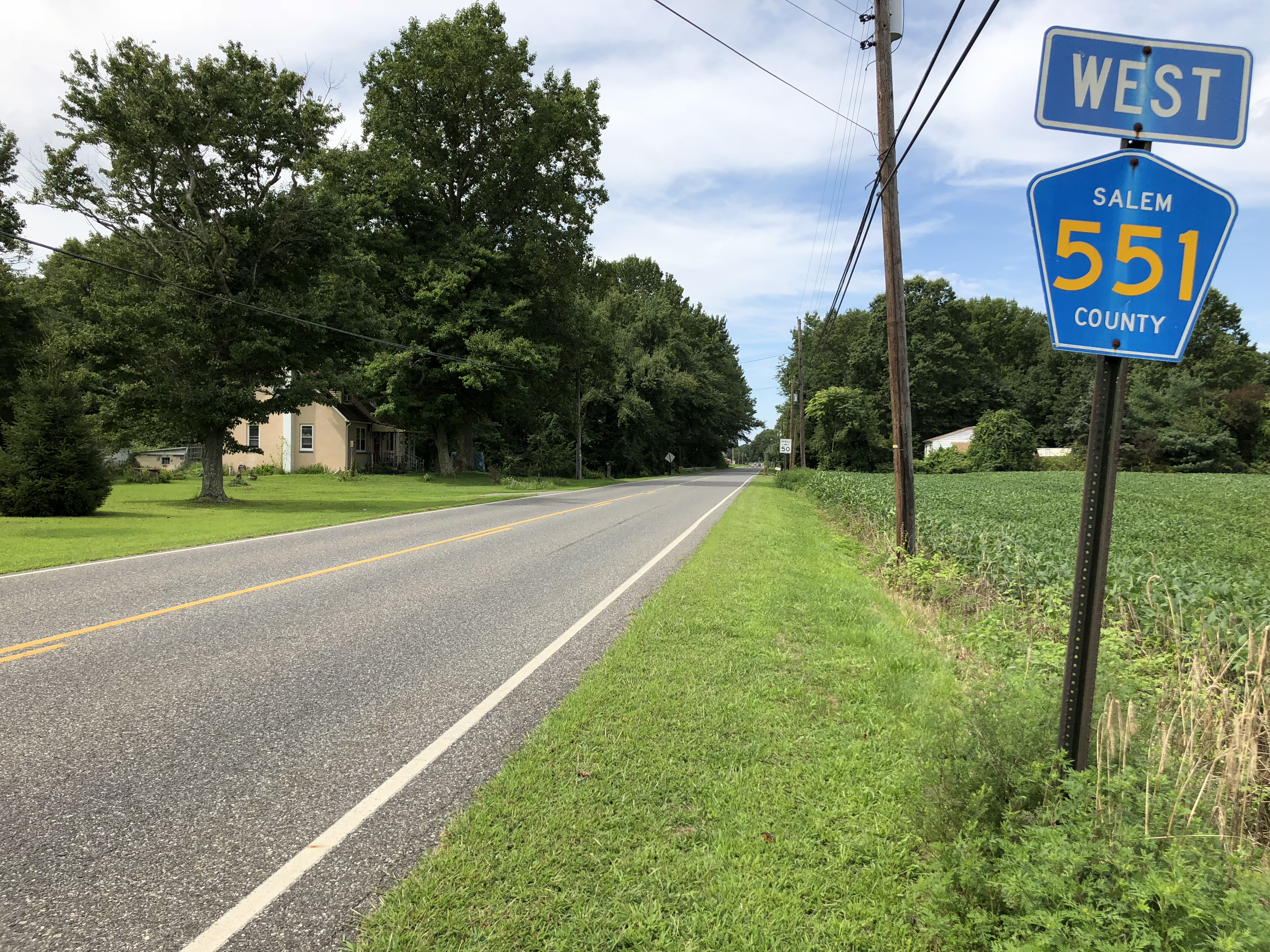 View south along Salem County Route 551 (Pennsville-Auburn Road) just south of Salem County Route 641 (Penns Grove-Auburn Road) in Carneys Point Township, Salem County, New Jersey